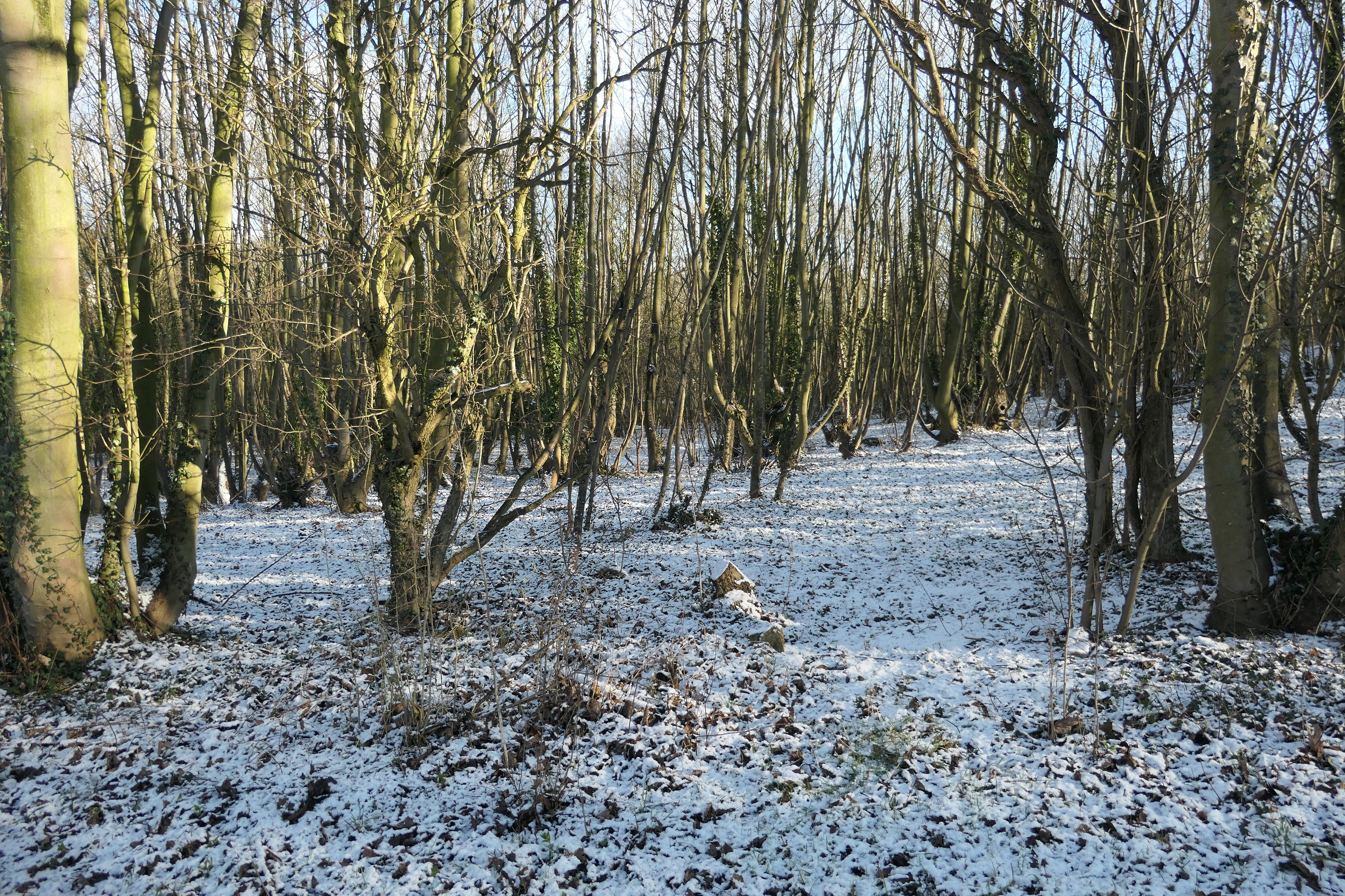 Hanging Wood, Highfields Country Park